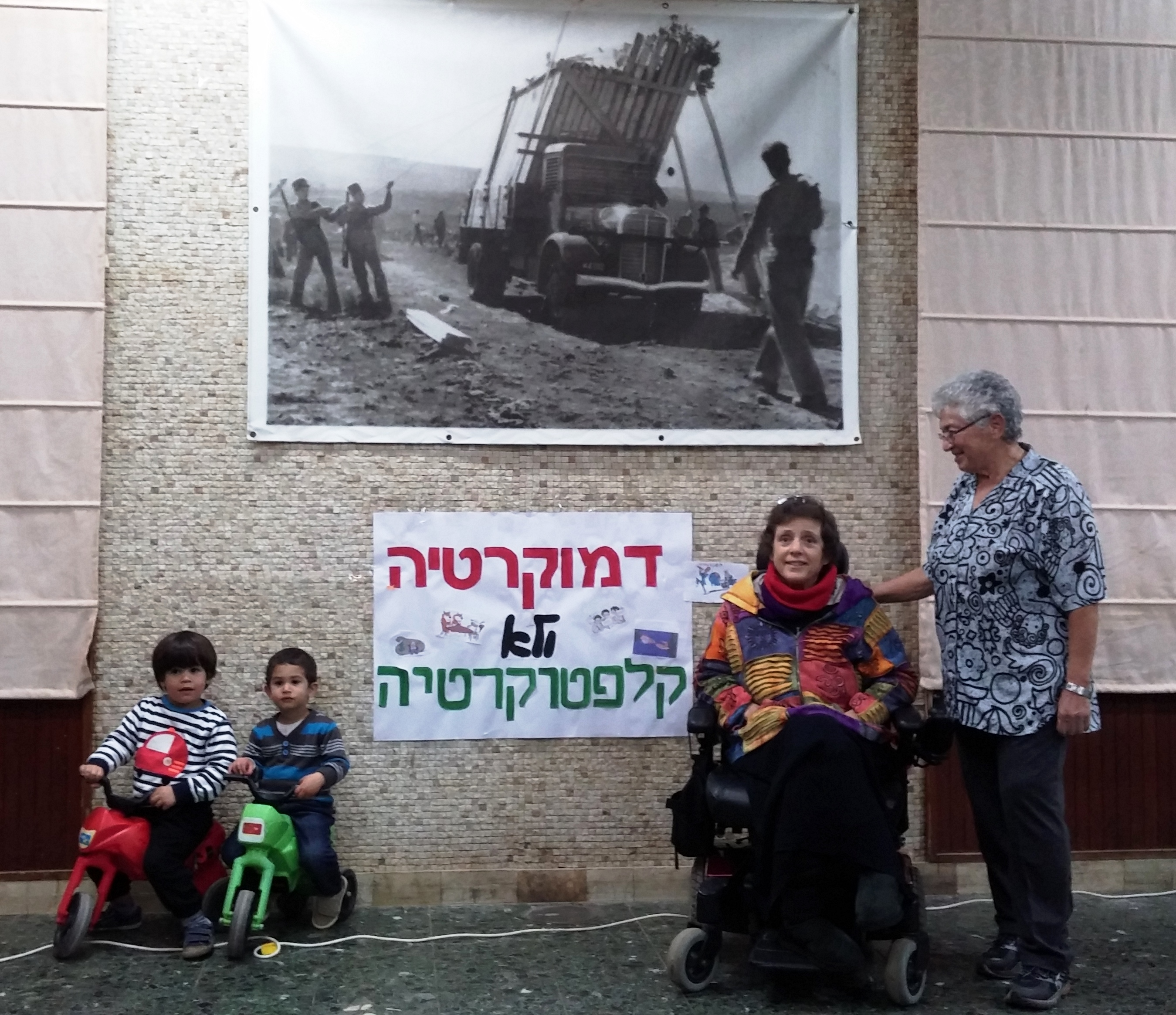 Democracy not kleptocracy -- a sign designed in order to be used in a demonstration.